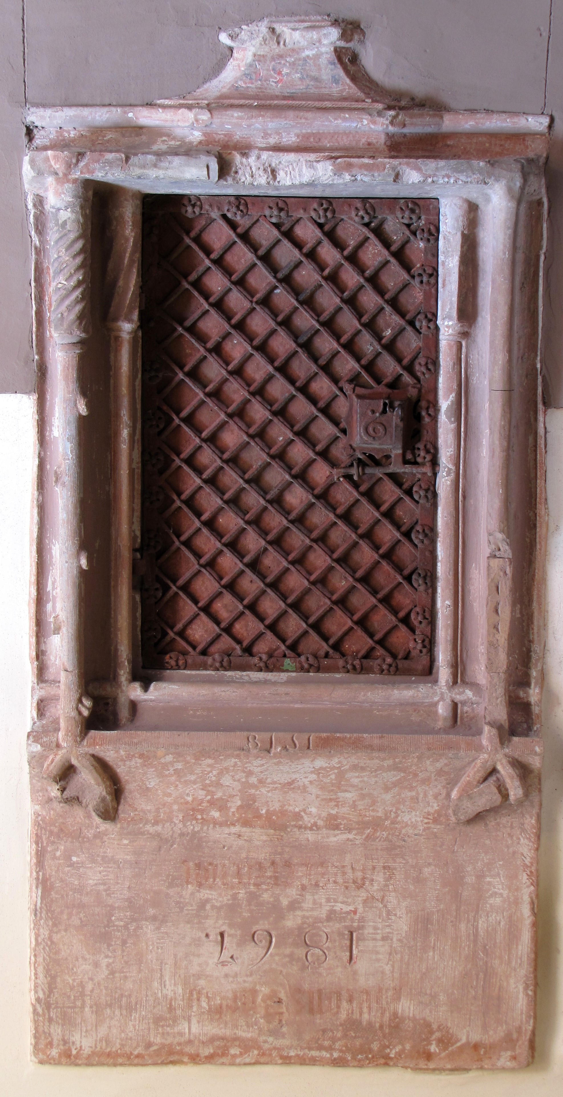 Alsace, Bas-Rhin, Église Notre-Dame de l’Assomption de Bernardswiller (PA00084612, IA00023770). Armoire eucharistique (1518): This object is inscrit Monument Historique in the base Palissy, database of the French furniture patrimony of the French ministry of culture, under the references PM67001567 and IM67001445.